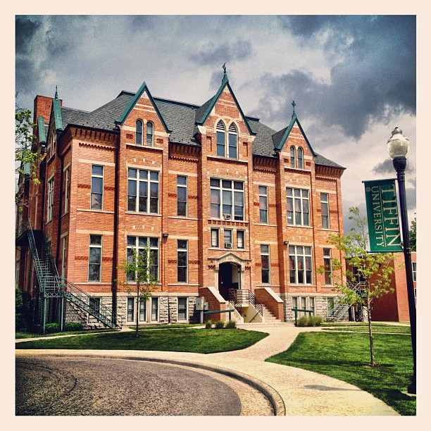 Tiffin University